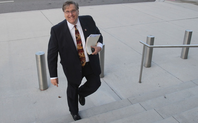 Doug Guetzloe, founder of Ax the Tax, goes to a court hearing.